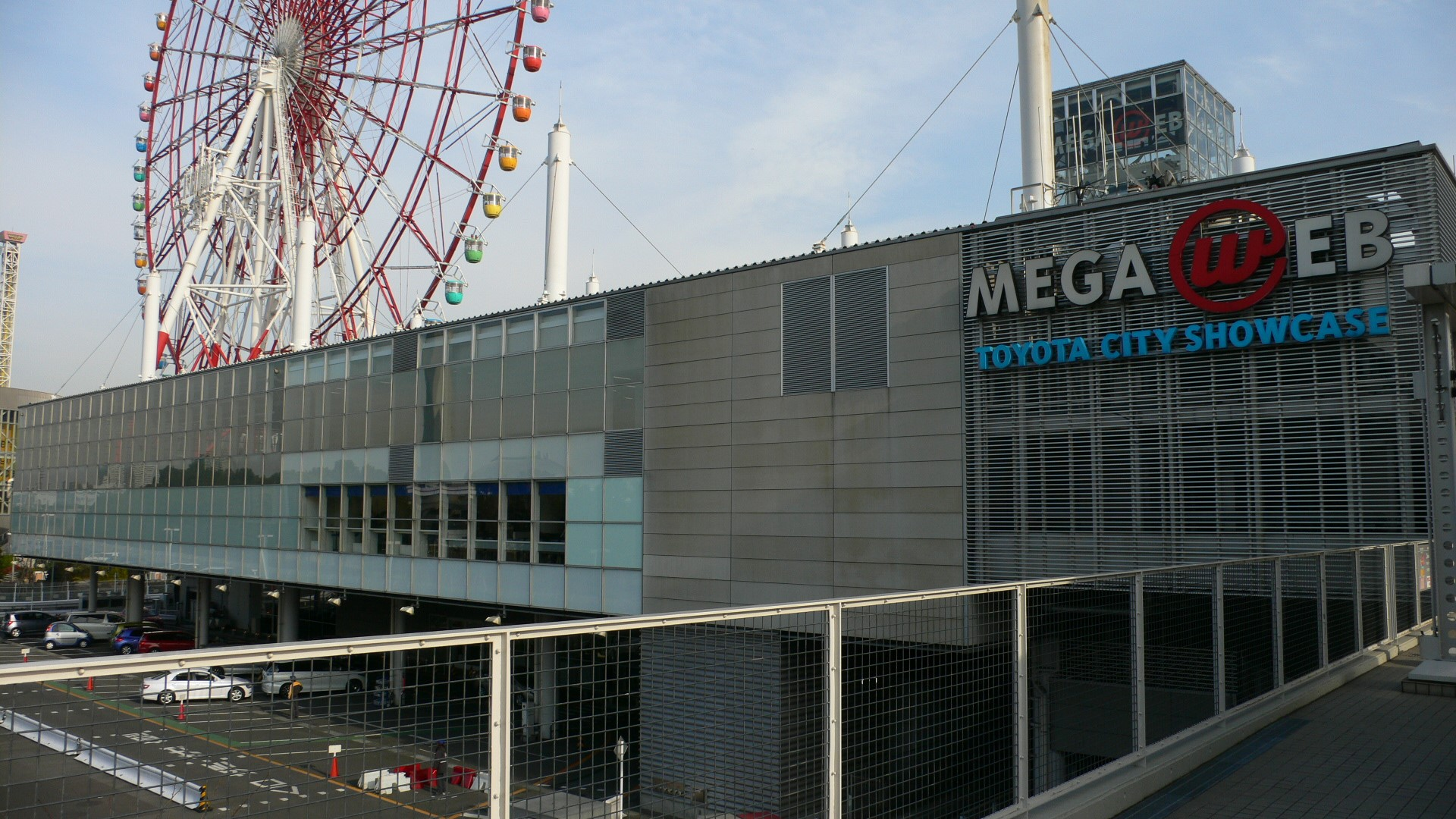 MEGAWEB (Showroom of Toyota)